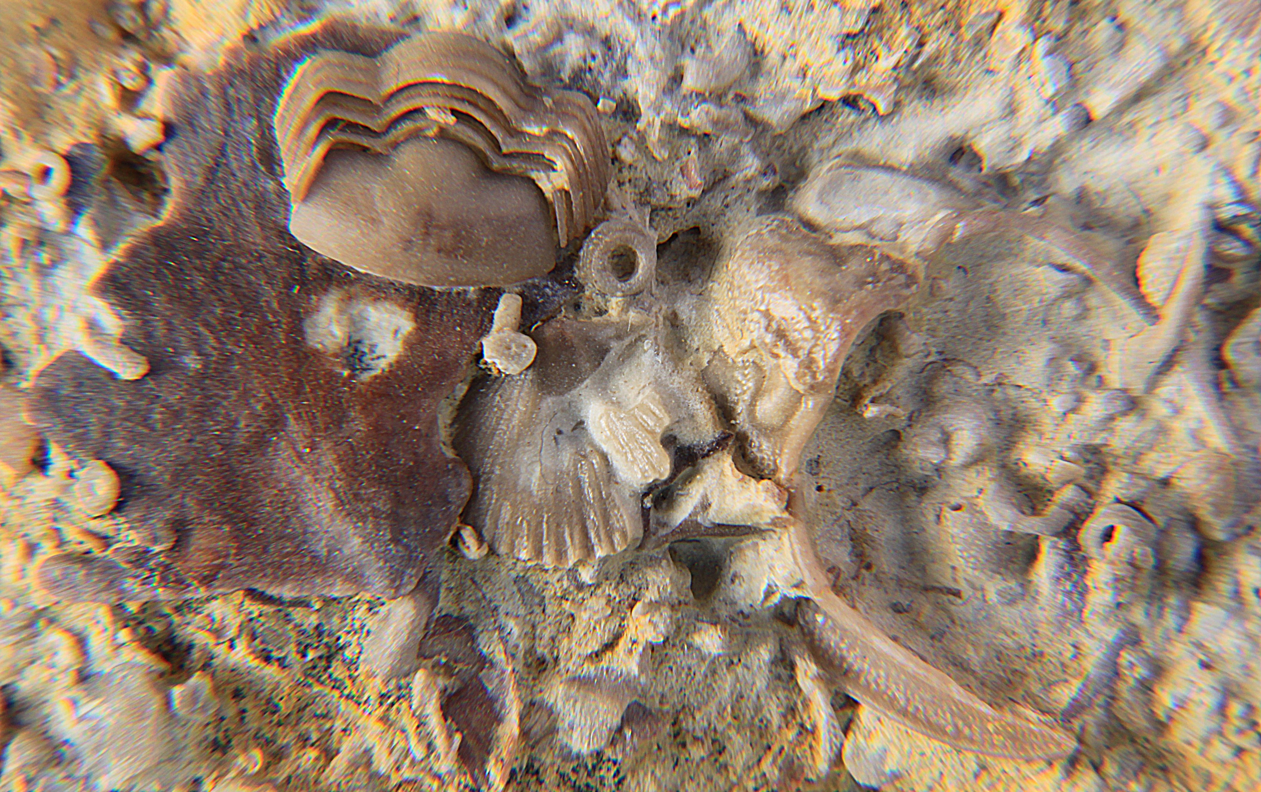 A piece of fossilised sea floor, from the Bromide Formation, near Ardmore, Carter County, Oklahoma, USA, from the early Upper Ordovician (Sandbian)